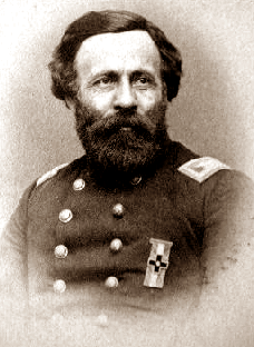 Portrait of Hiram Burnham